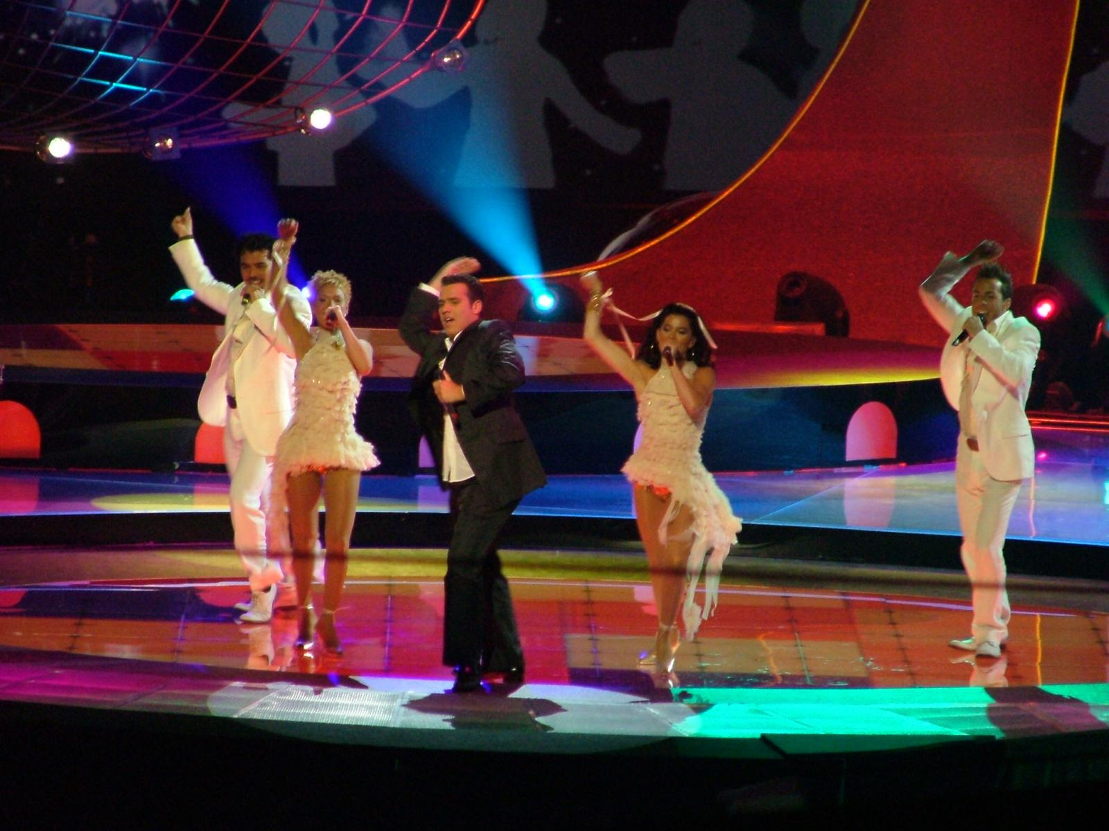 Ramón, represting Spain with "Para llenarme de ti", performing at the rehearsals for the Eurovision Song Contest 2004 final on 14 May 2004, Istambul